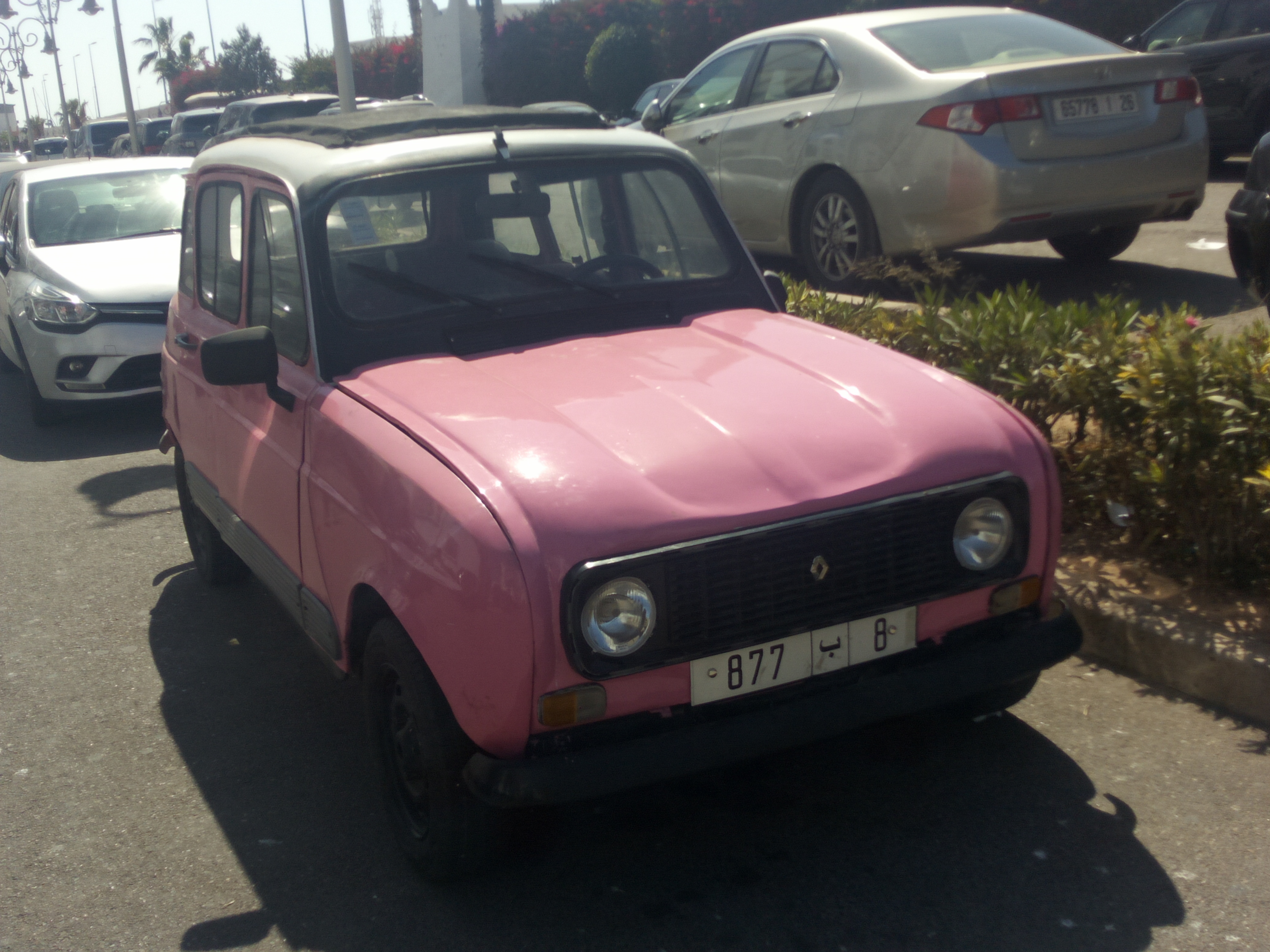 An old pink car parked in Marina Agadir by AmlouMed This is an image with the theme "Africa on the Move or Transport" from: Morocco